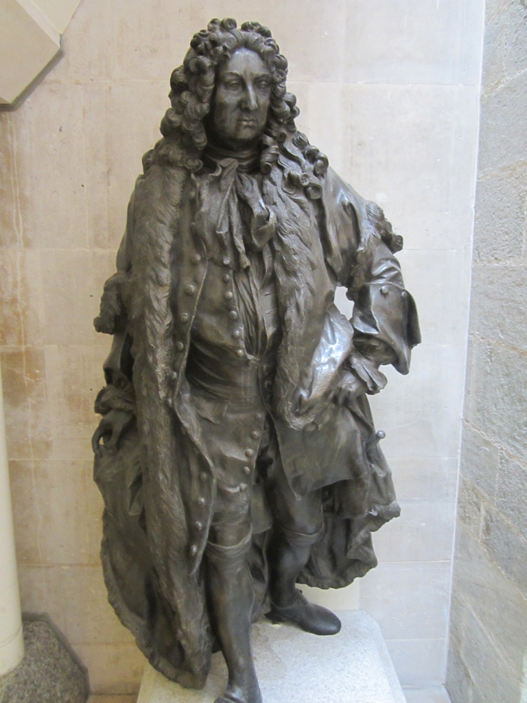 Louis-François Roubiliac, Statue of Sir John Cass (2015), Guildhall, London